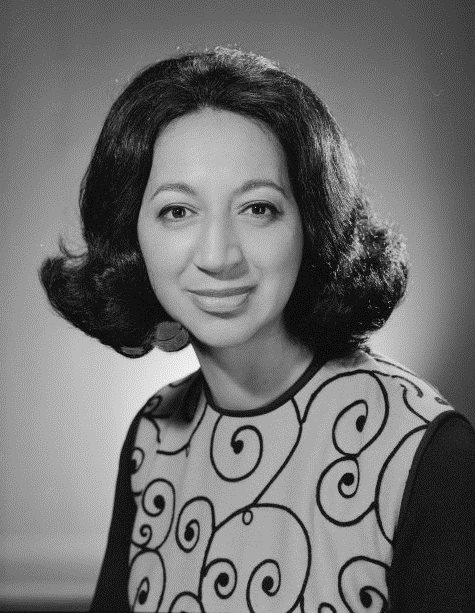 Head and shoulders portrait of Tini Whetu Marama Tirikatene-Sullivan, photographed circa 1960, by S P Andrew Ltd.